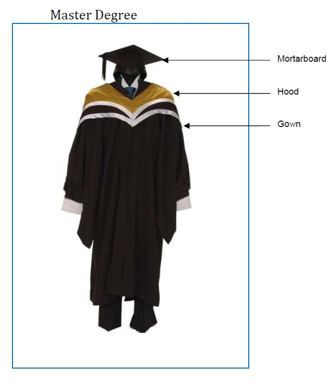 Diagram of cap and gown for masters degree holders